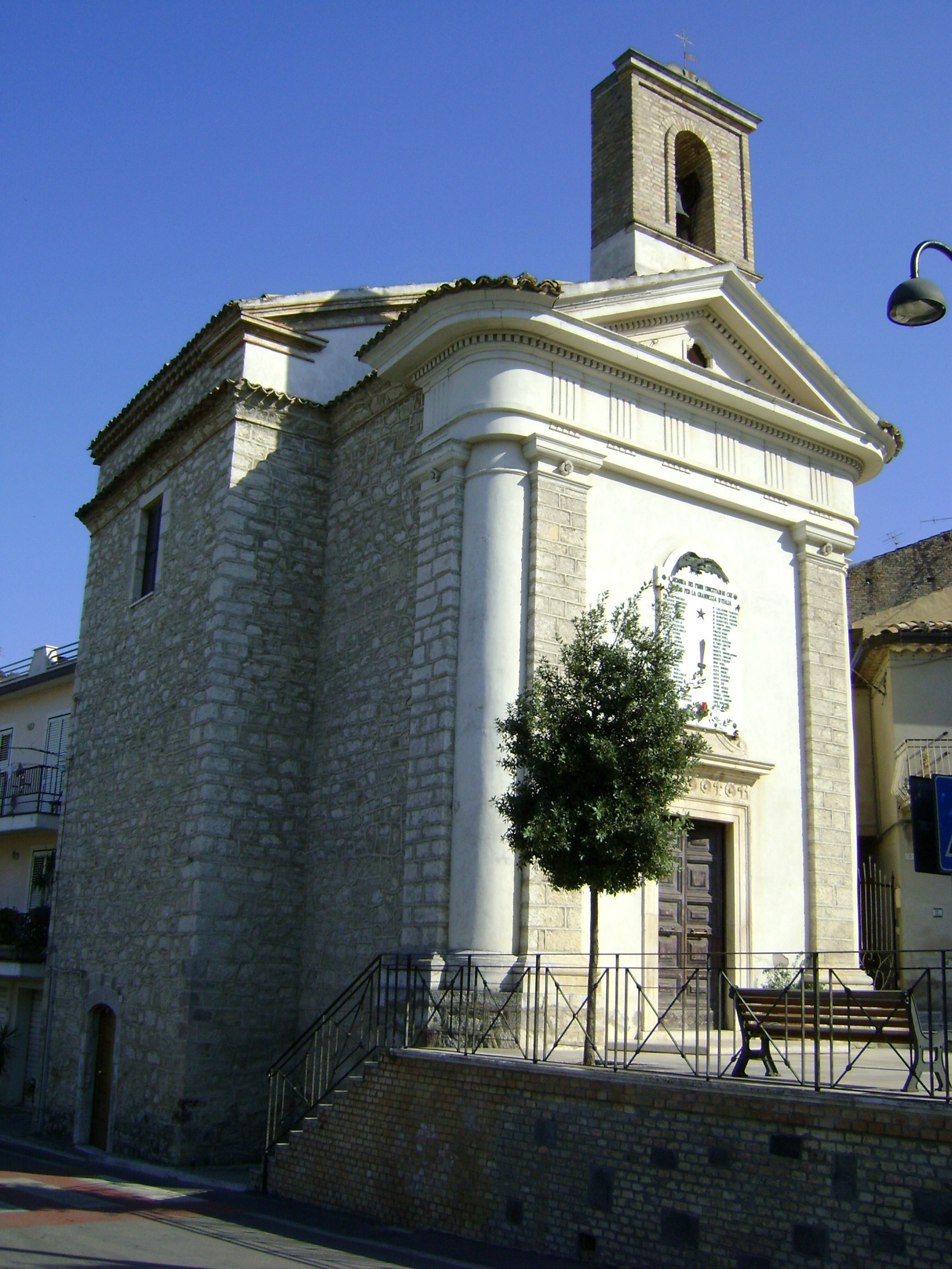 The church of San Rocco, Altino, province of Chieti, Abruzzo